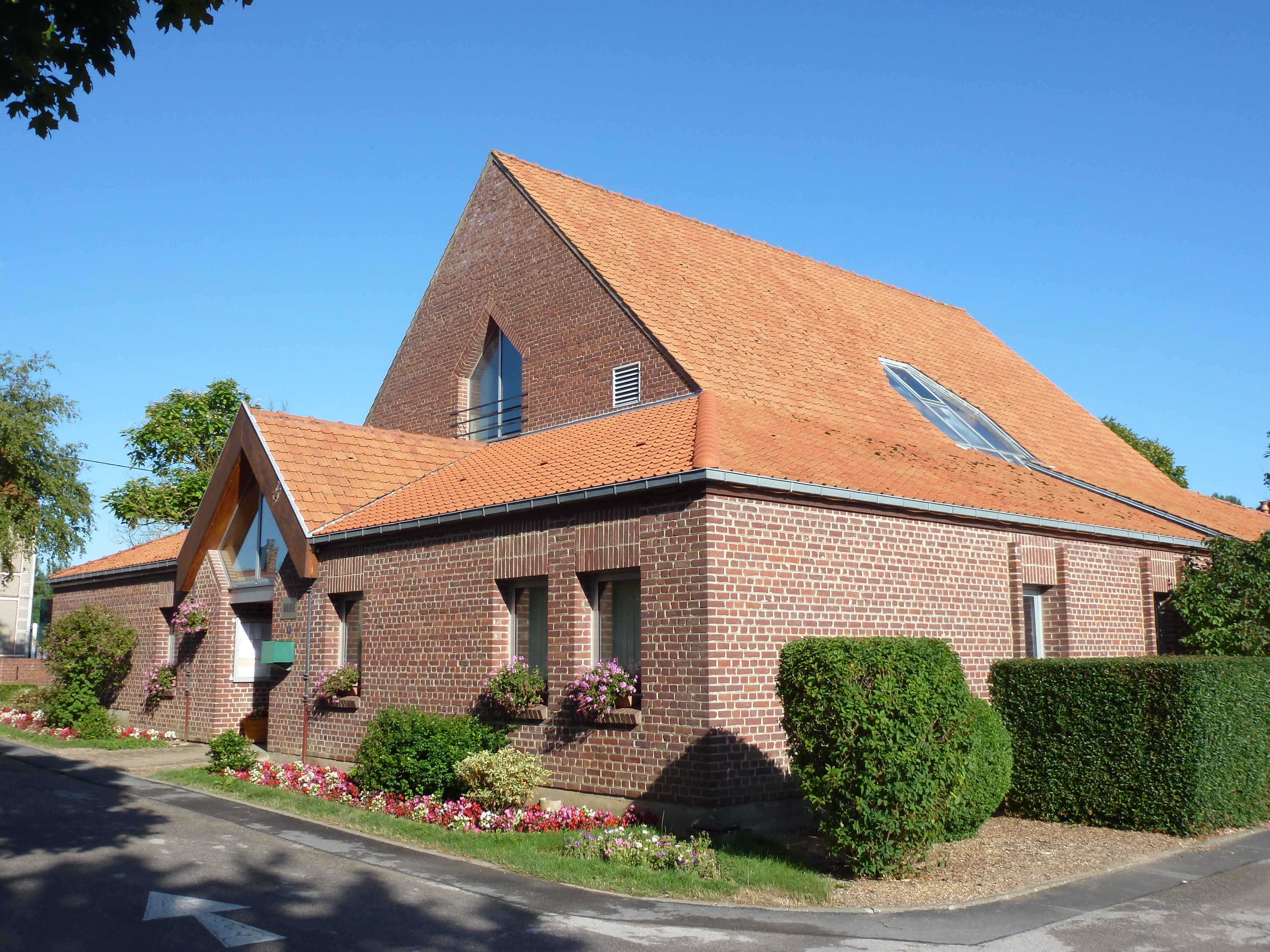 Heuringhem (Pas-de-Calais, Fr) mairie